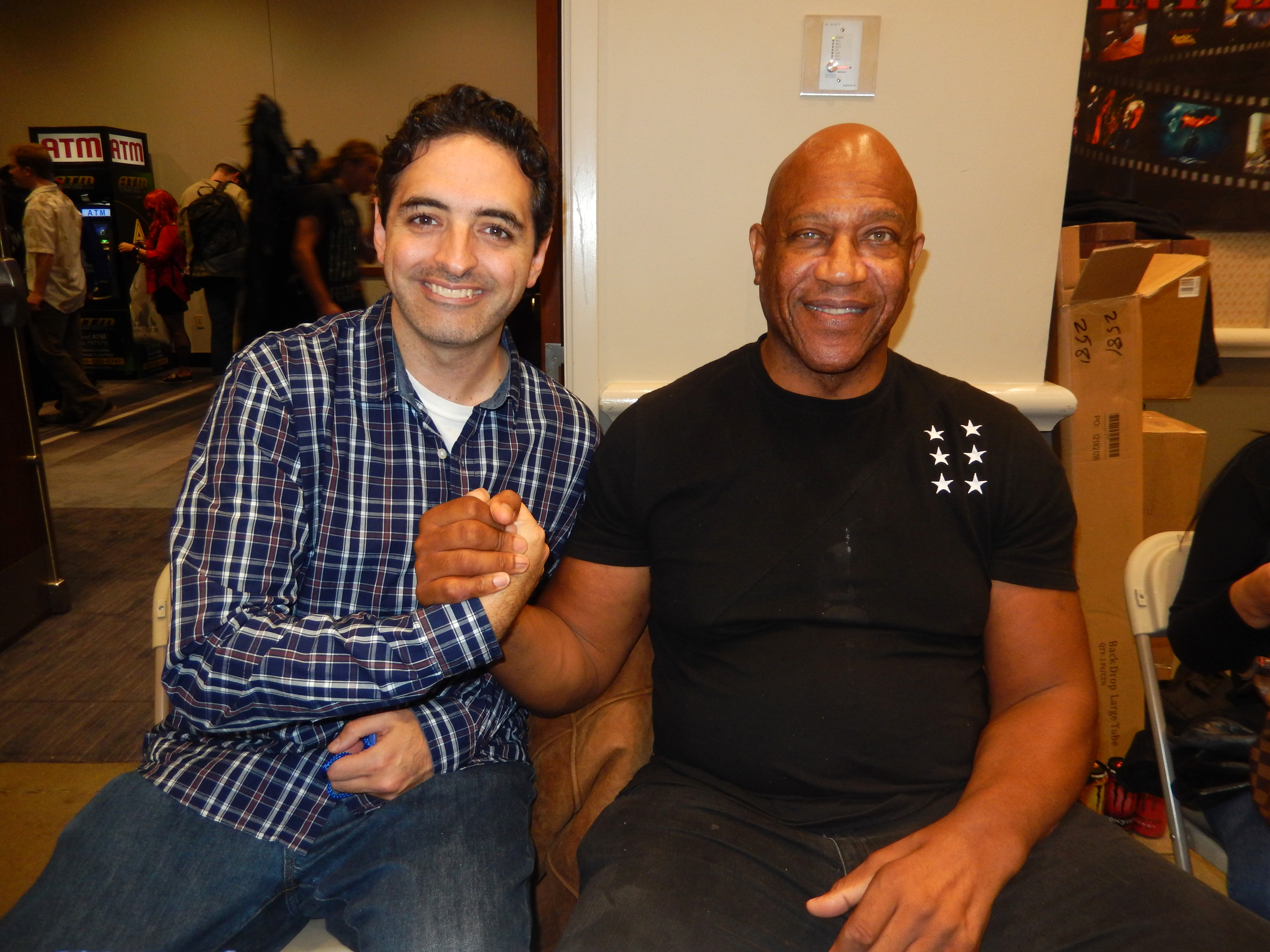 Zeus in No Holds Barred, also star of The Fifth Element, Little Nicky, and Friday.